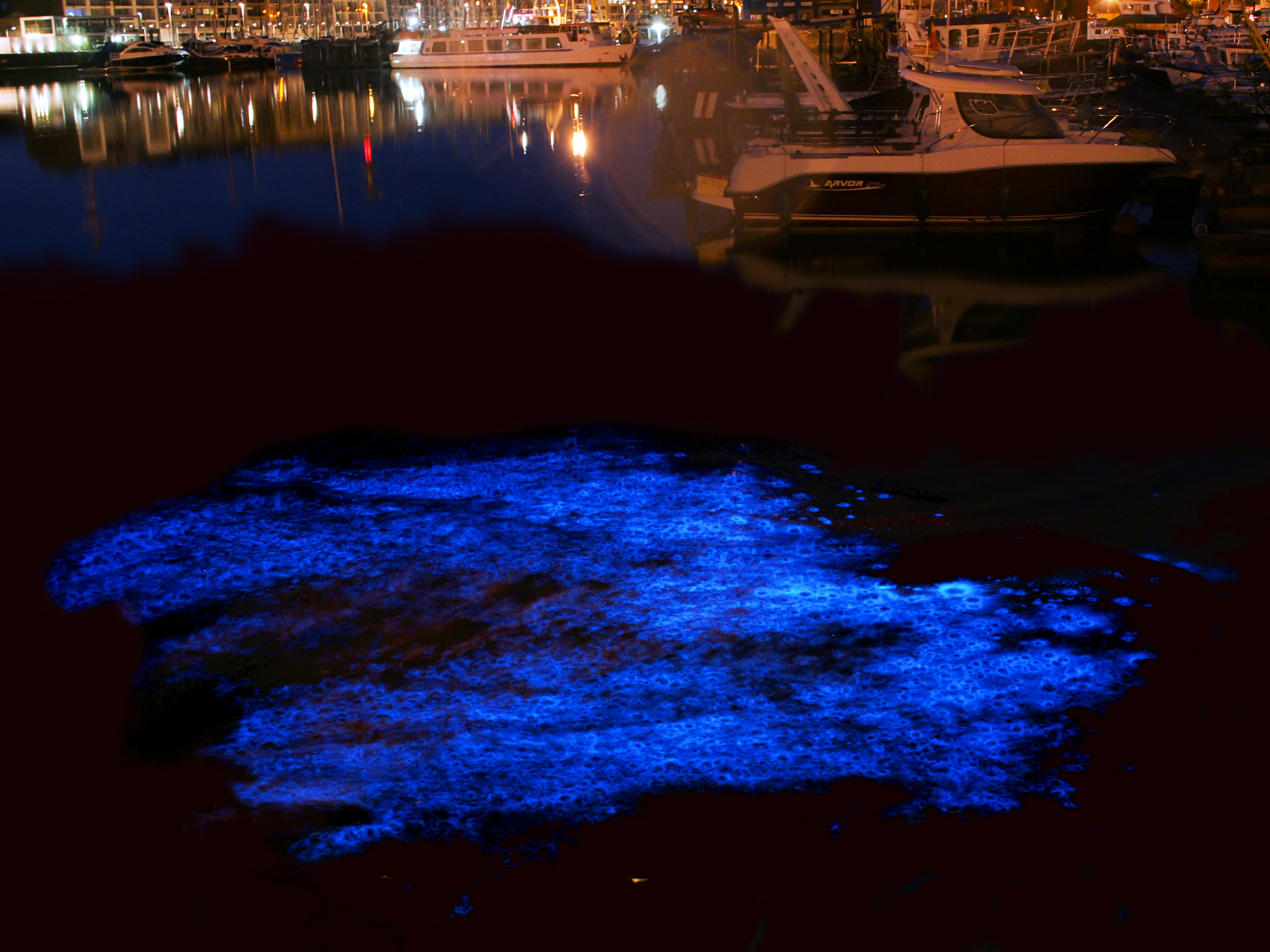 Sea Sparkle at the Yacht Port of Zeebrugge, Belgium